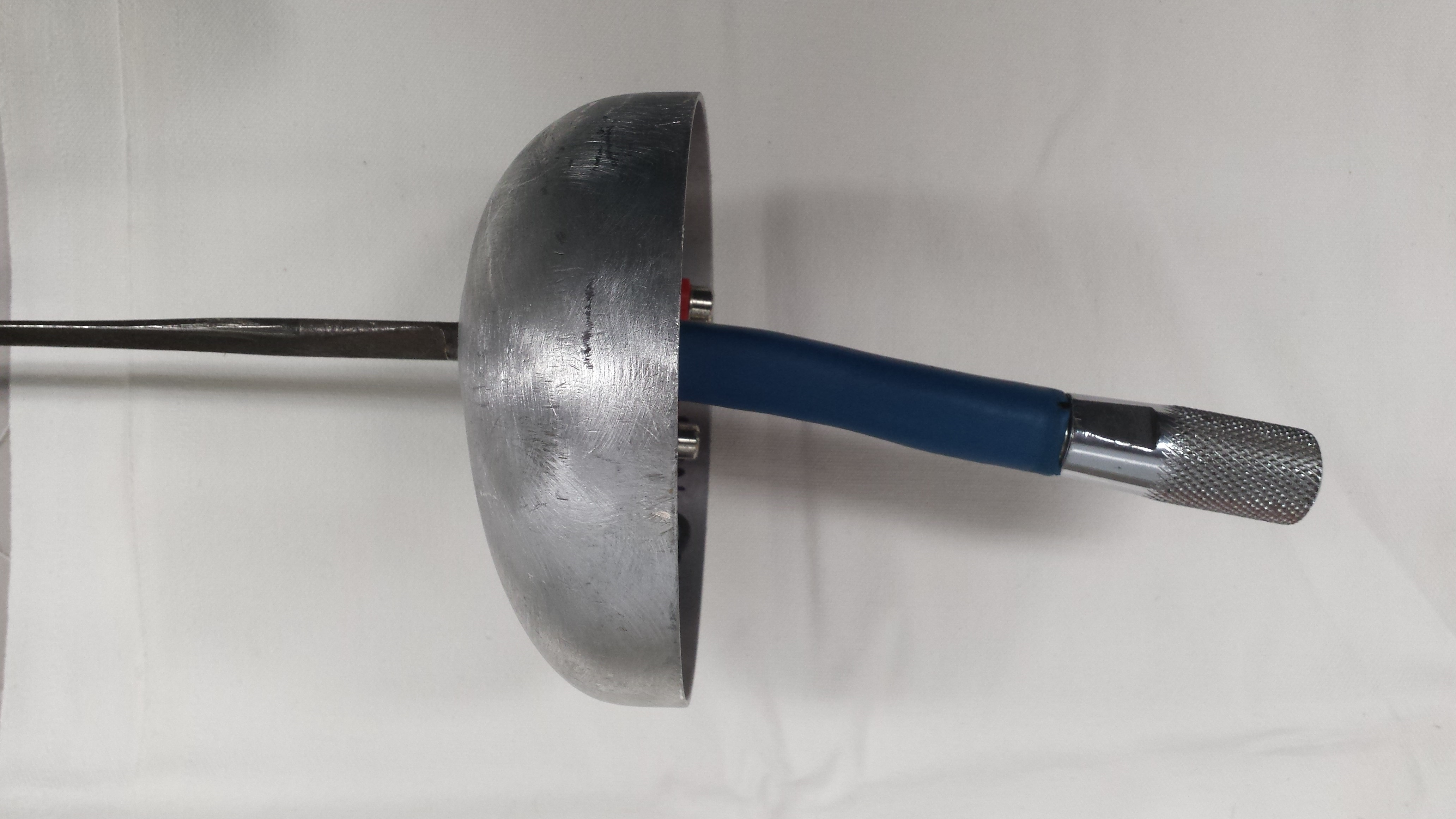 Straight french grip on an epee